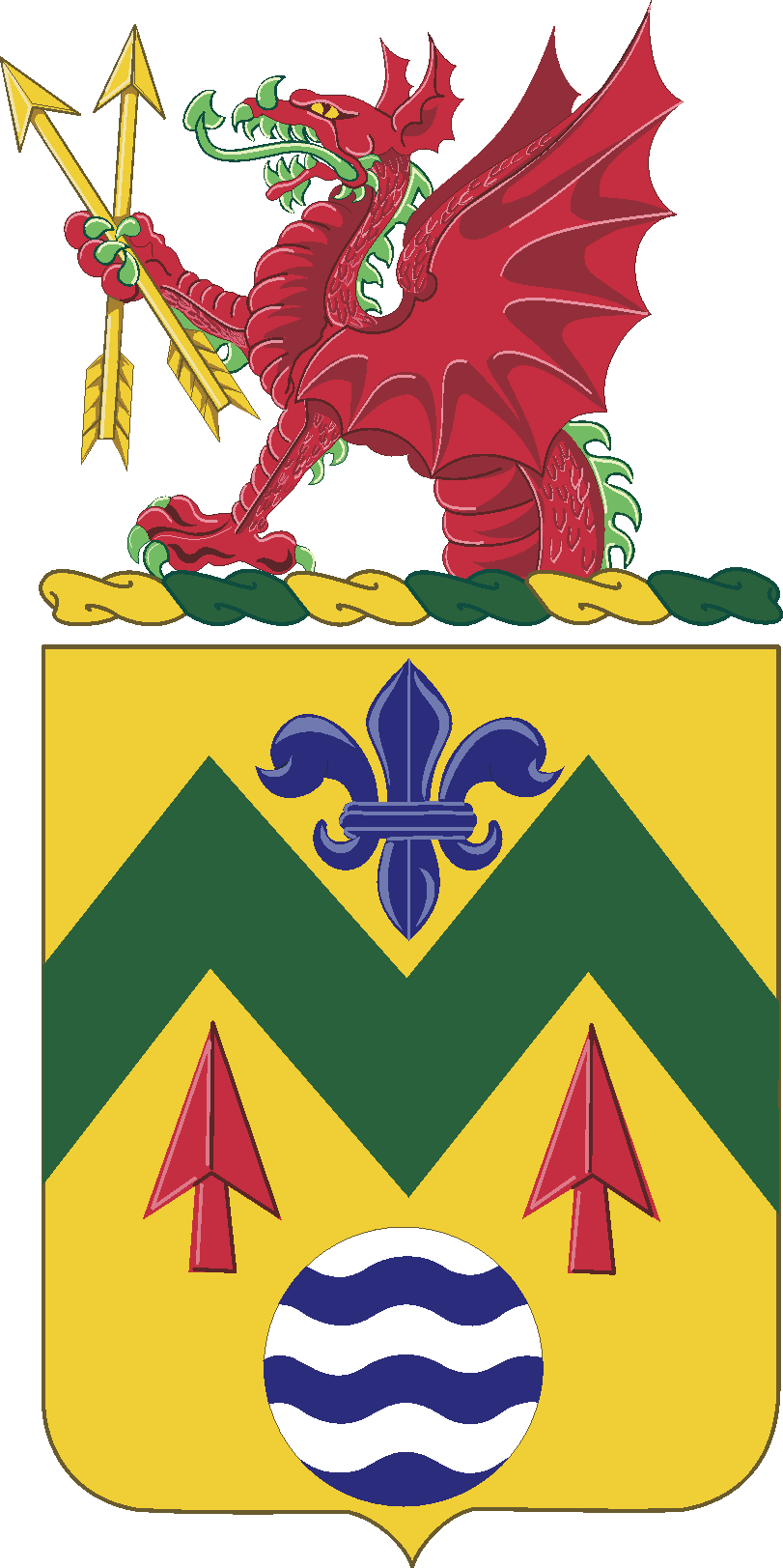 528th Support Battalion Coat of Arms